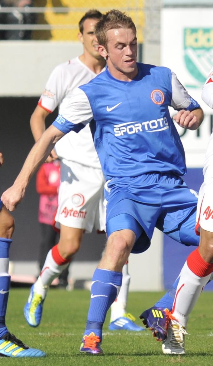 Edin Visca - Antalyas-İBB Photo:Murat Özgen